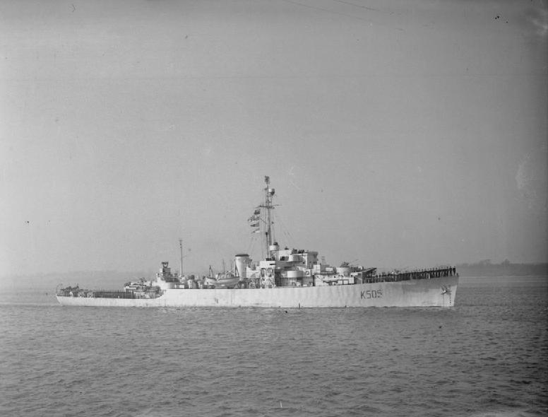 Photograph of British Colony class frigait HMS Caicos.